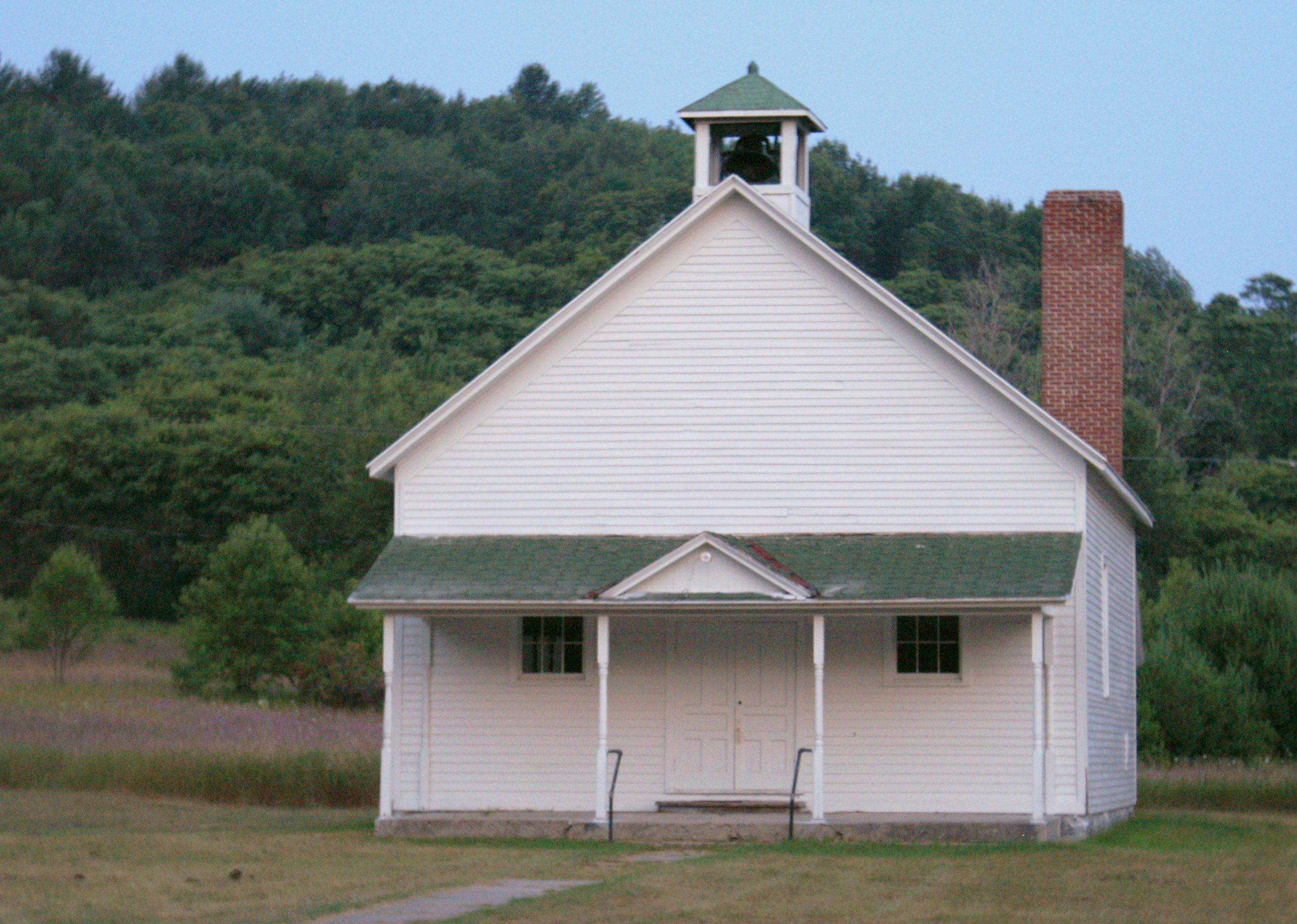 Port Oneida School within the Port Oneida Rural Historic District of the Sleeping Bear Dunes National Lakeshore in the Leelanau Peninsula of Northern Michigan.